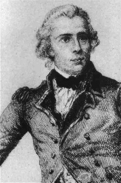 Thomas Bruce, 7th Earl of Elgin (1766-1841)